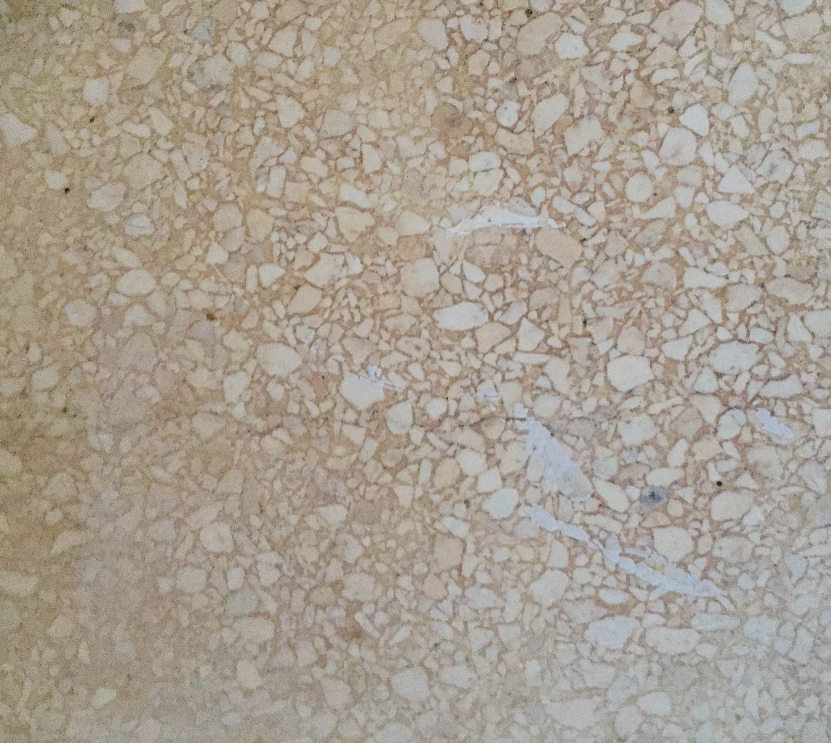 Kitchen worktop made out of ocriet.